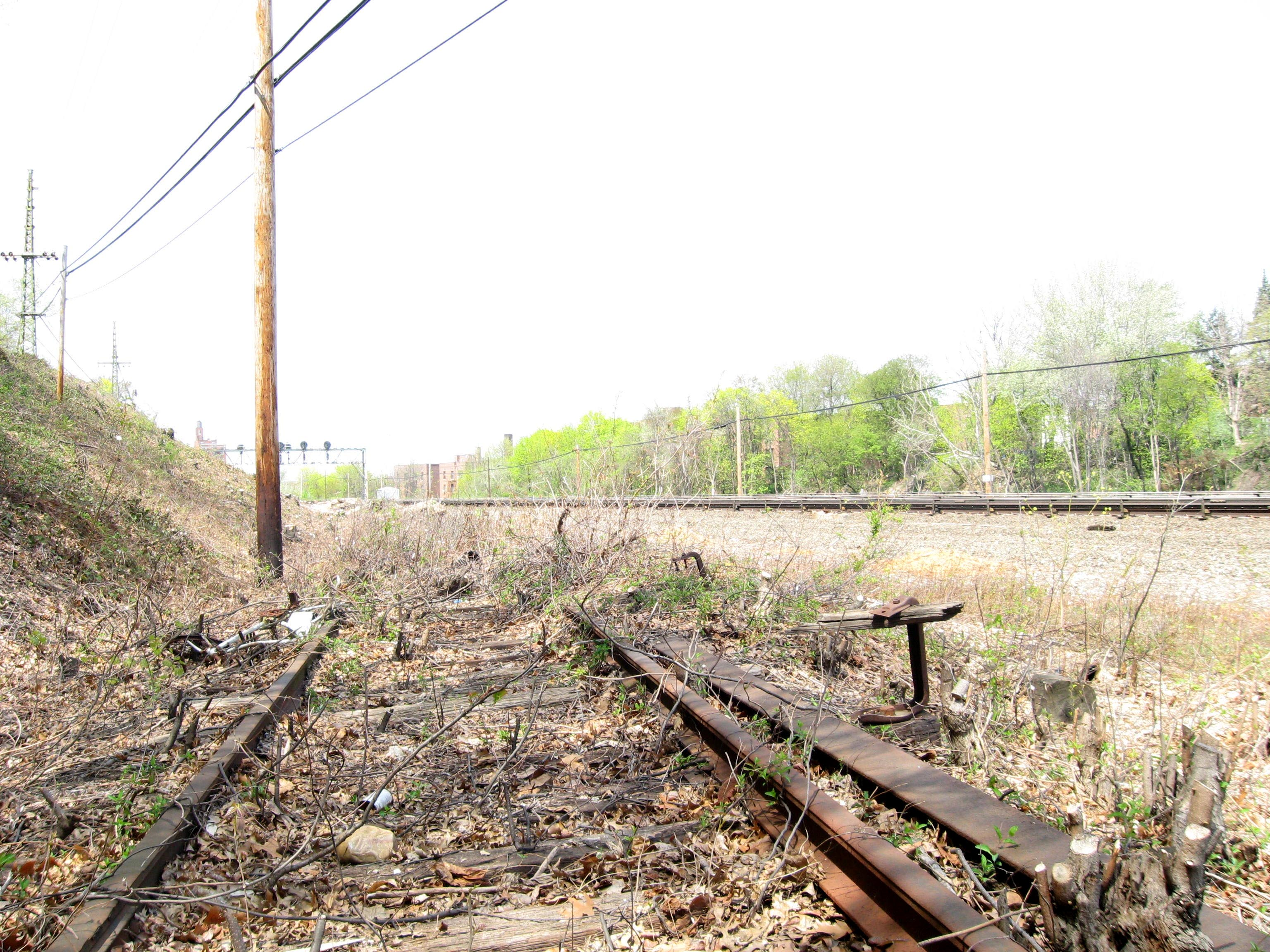 Looking northwest at abandoned southbound track of Rockaway Beach Branch and former Main Line junction at Rego Park (Queens), on a sunny springtime midday. See also Image:Whitepotmainjeh.JPG.